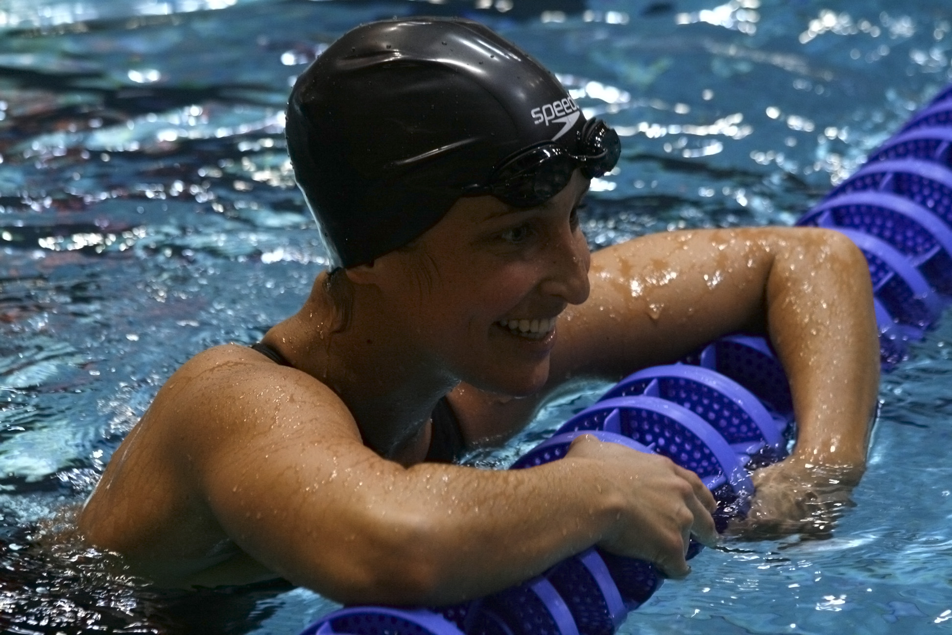 Swimmer Kim Vandenberg at the 35th Ströck-Austrian Qualifying 2008 at the Wiener Stadthalle.